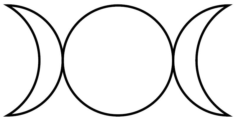 Triple Goddess Symbol, composed of waxing crescent, full moon, and waning crescent (outlined version). Sometimes the crescents are tilted up a little to simulate the appearance of a young waxing moon above the horizon after just after sunset, and of an old waning moon above the horizon just before sunrise. The symbol is sometimes combined with a pentagram to express a more general Neopaganism. See also Image:Triple-Goddess-Waxing-Full-Waning-Symbol-filled.png for a monochromatic solid version, or Image:Triple-Goddess-Waxing-Full-Waning-Symbol-multicolored.png for a version using symbolic colors. See Image:Three-Crescents-Diane-Poitiers.png for a different crescent symbol. The crescents consist of a 120° arc inscribed within a 180° arc (i.e. what is left over when a Vesica piscis figure is inscribed within a circle). This shape is an approximation to the astronomically-correct crescent shown in blue in diagram Image:Gibbous-Crescent-half-ellipse-in-circle.png (i.e. the average appearance of the illuminated area of the moon at the mid-point of the first third or the last third of a lunar month, measured from New Moon to New Moon), but is more aesthetic when used as a symbol. Of course, individual artistic renderings of the Triple Goddess symbol will very frequently not strictly follow these exact proportions, but the crescent shape shown here is more or less the "canonical" form.